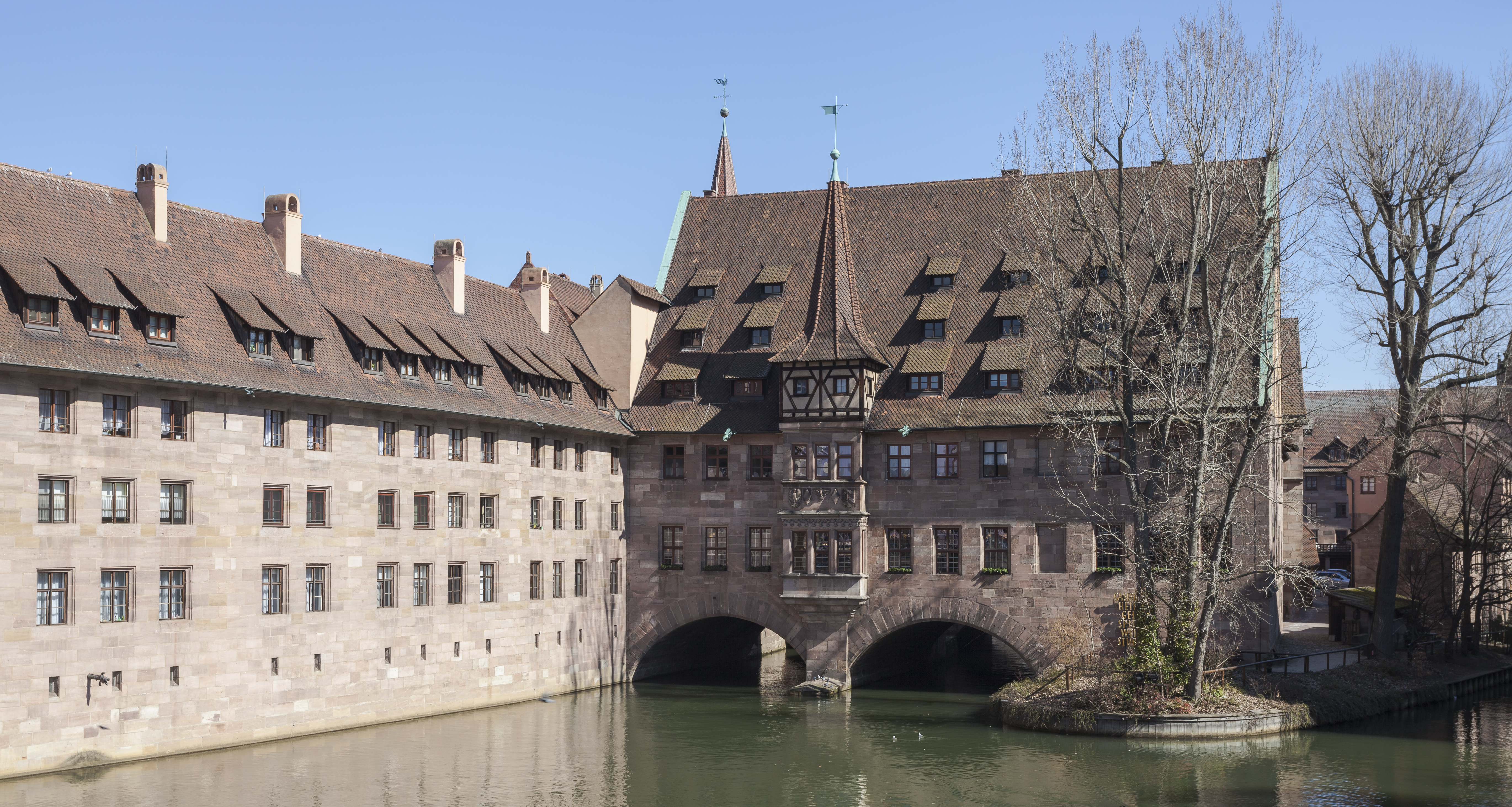 Hospital of the Holy Spirit, Nuremberg, Germany